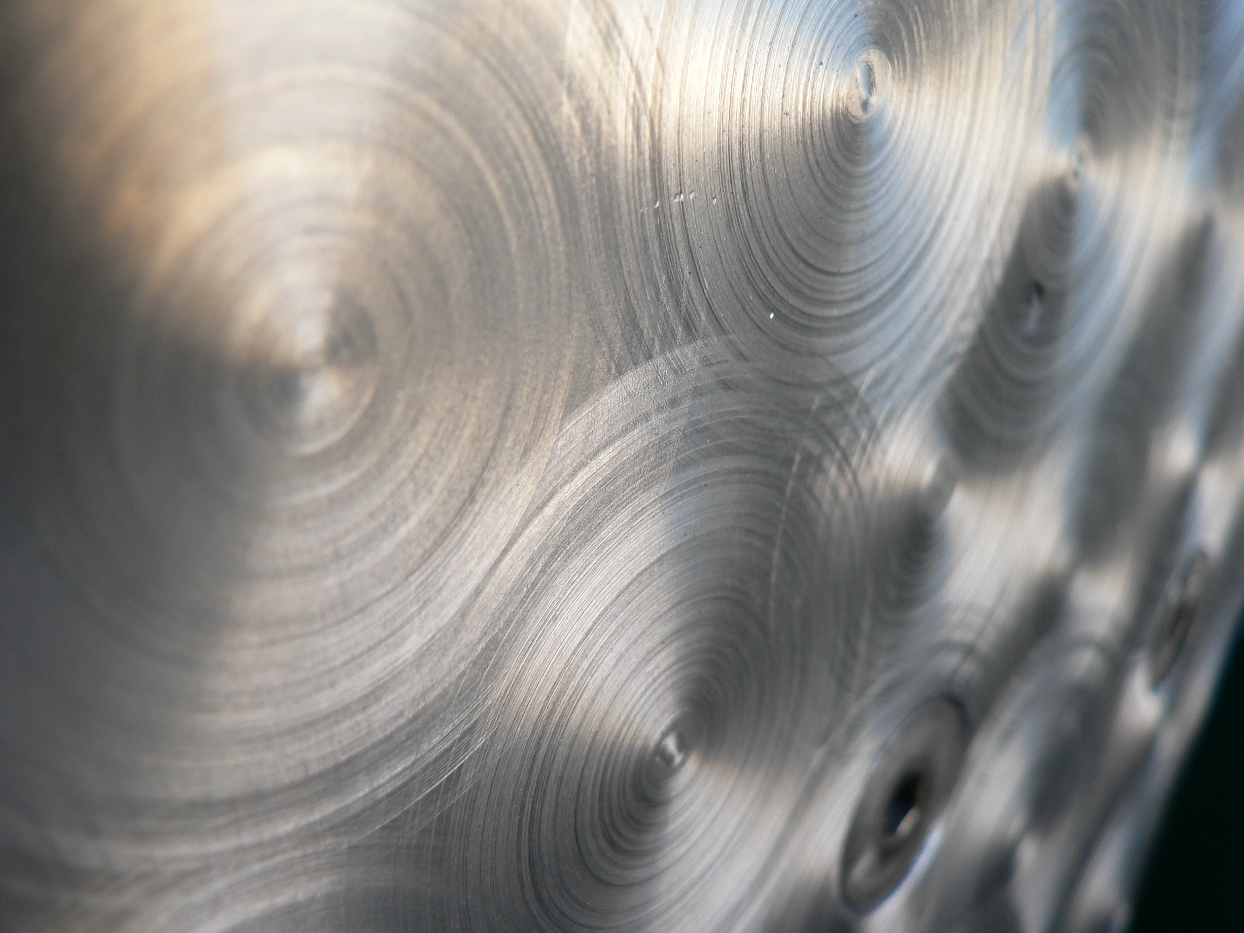 Aluminium brushed in circles